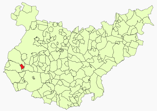 Táliga